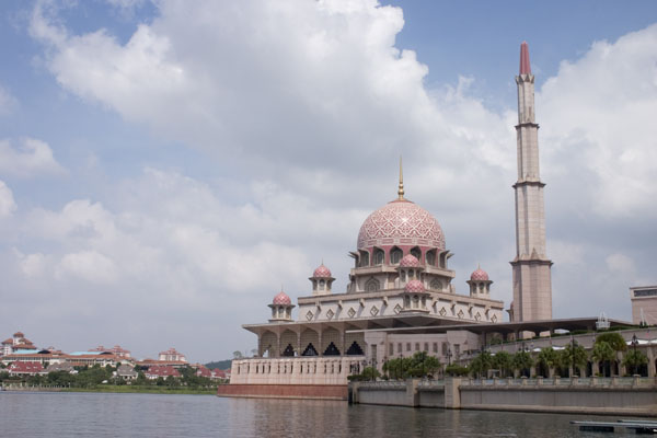 Putra mosque at the lake of Putrajaya, Malaysia